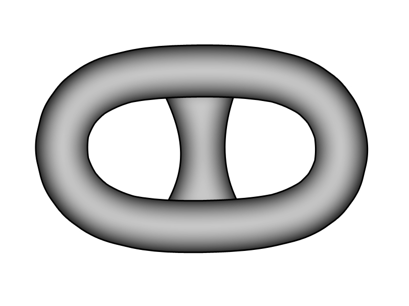 A diagram/ illustration of a link of studlink chain